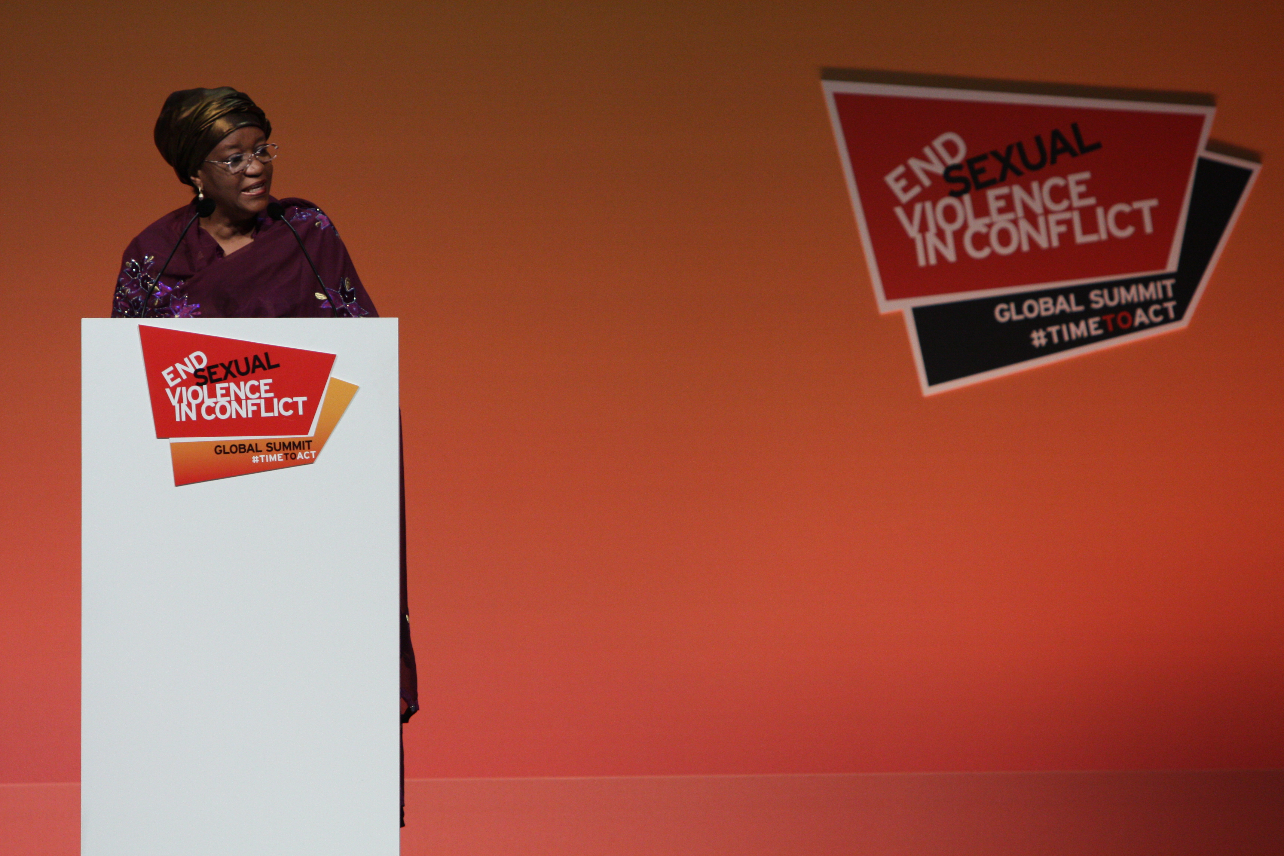 Zainab Bangura, UN Secretary General’s Special Representative on sexual violence in conflict speaking at the Ministers' Day at the Global Summit to End Sexual Violence in Conflict, 12 June 2014.